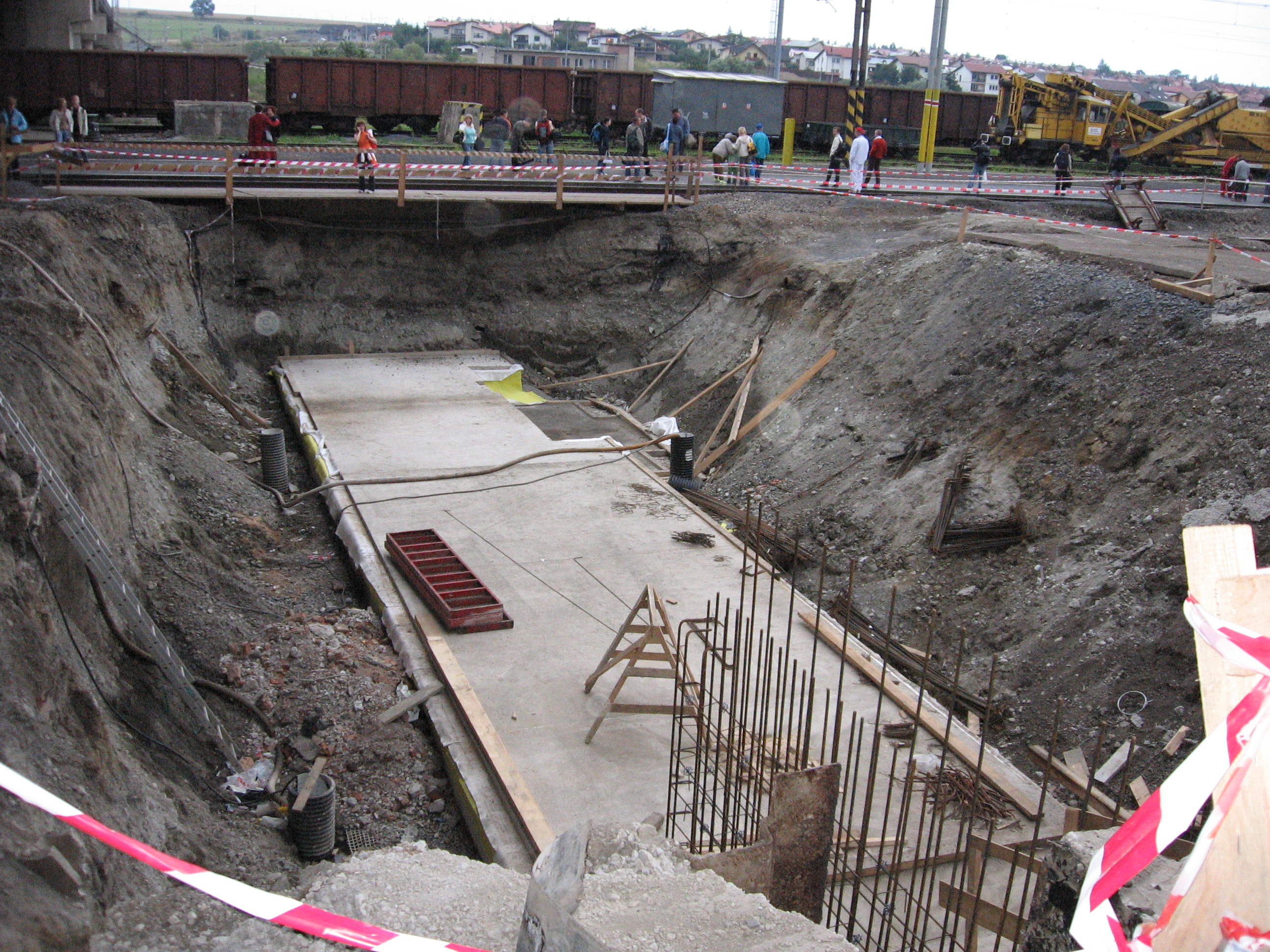 Reconstruction of a railway station in Poprad